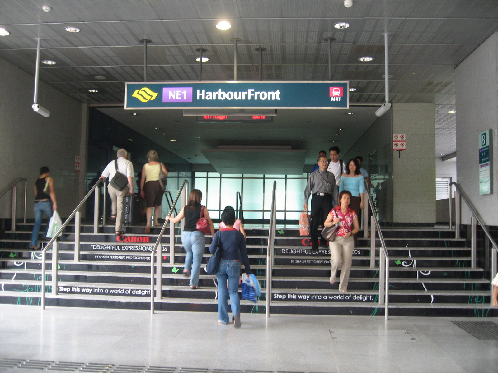 HarbourFront MRT Station.